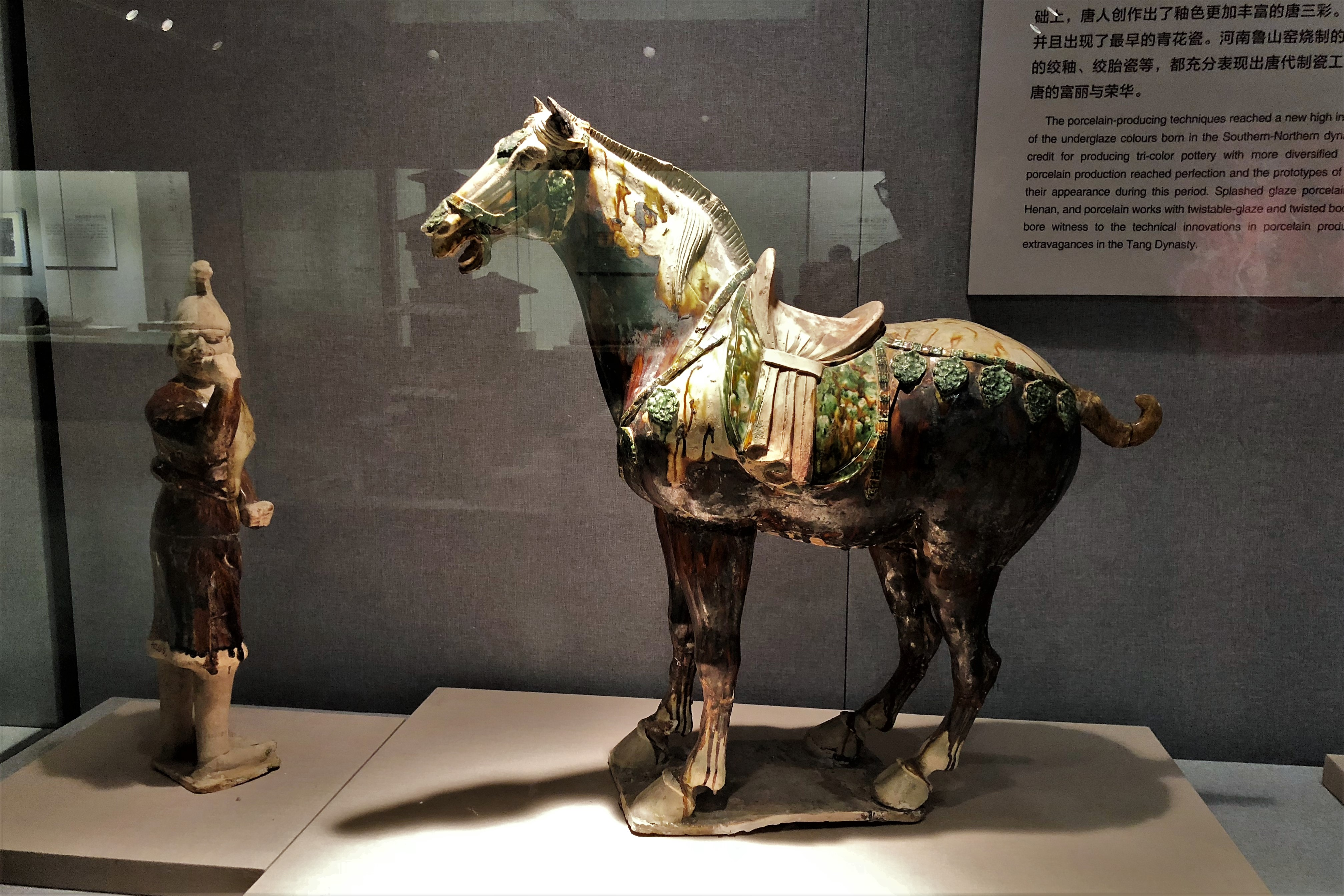 Tri-color glazed pottery horse and groom. Tang Dynasty. Excavated in Luoyang.